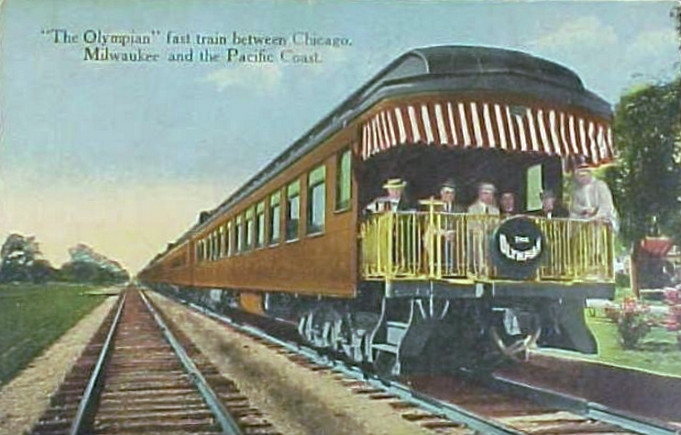 Postcard photo of the Chicago, Milwaukee and St. Paul Railroad's "The Olympian", which promoted it as being the "fast train" to the Pacific Northwest. The railroad ran a slower train on the same route called "The Columbian".